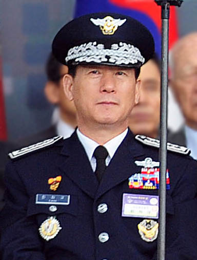 General Choi Cha-kyu, Chief of Staff of the South Korea Air Force (ROKAF)